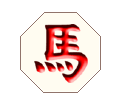 One of the janggi pieces.